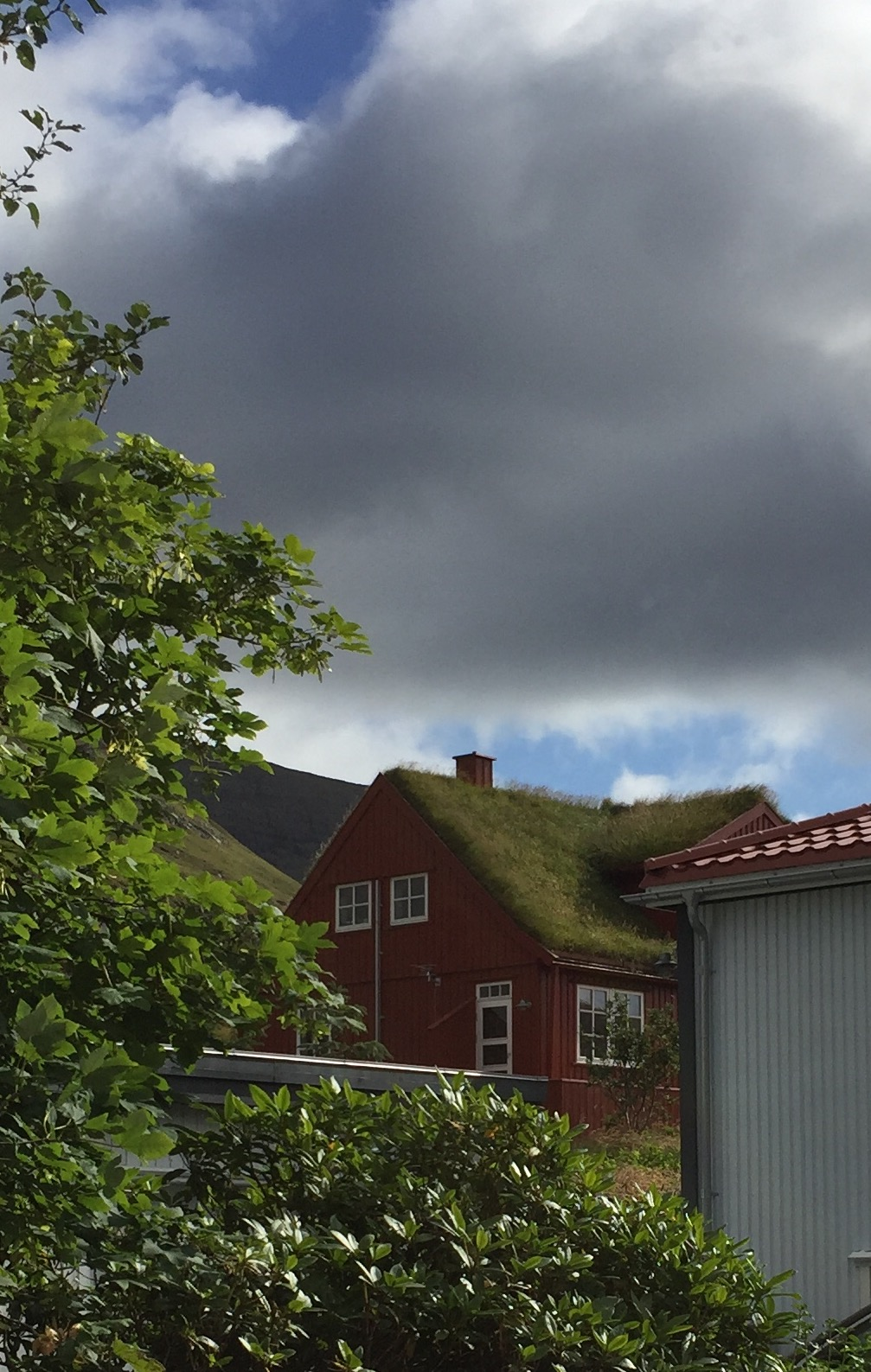 Soil roofed house in Klaksvik